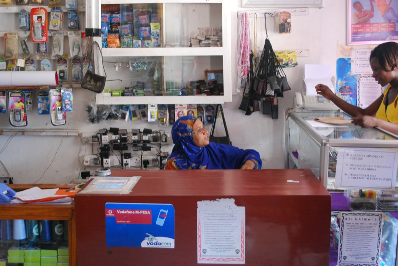 An M-Pesa agent in Tanzania. M-Pesa, developed my Vodafone, is a system for cashless payment and money transfer via mobile phones based on SMS communication.